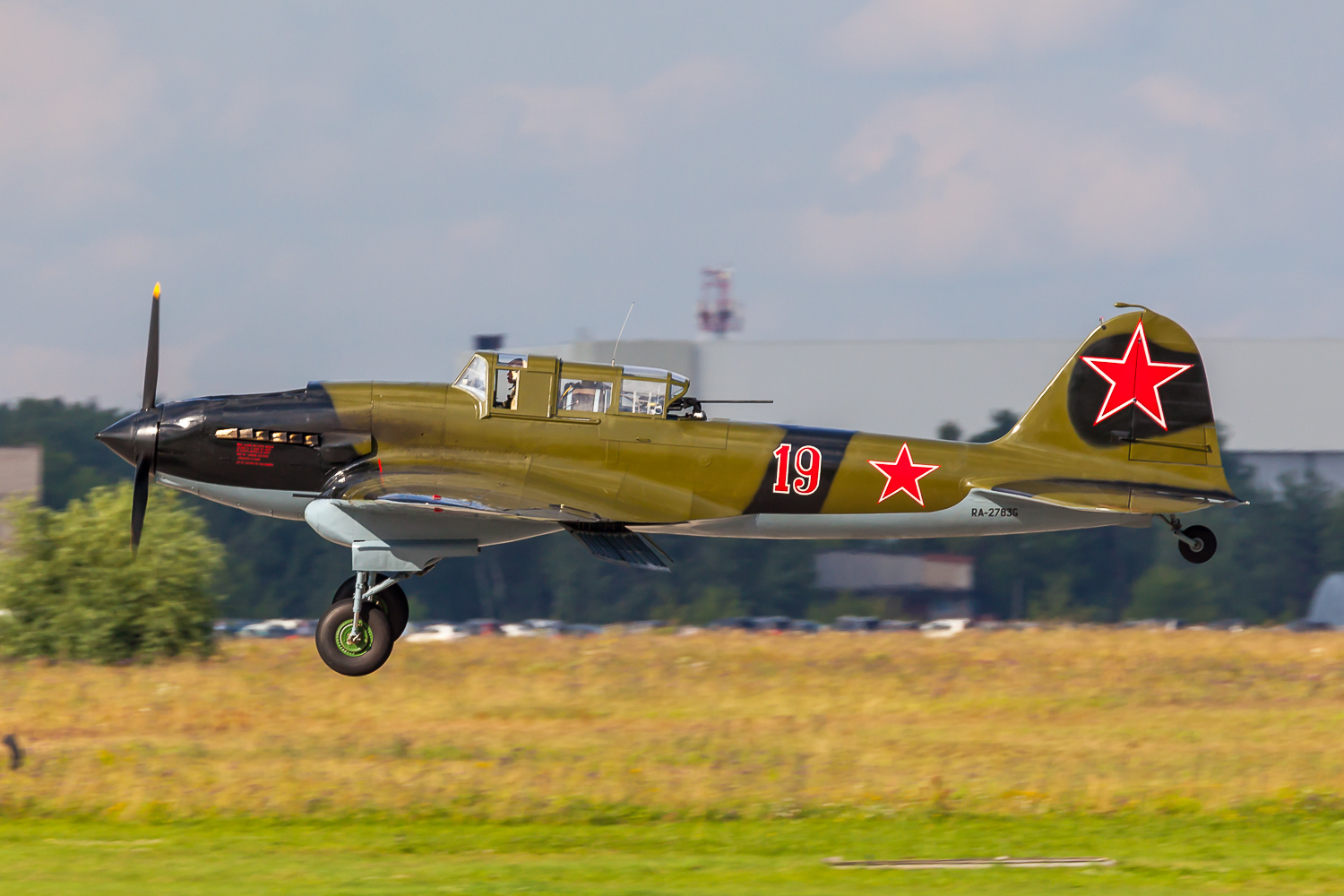 Ilyushin Il-2 (RA-2783G) at 2017 MAKS